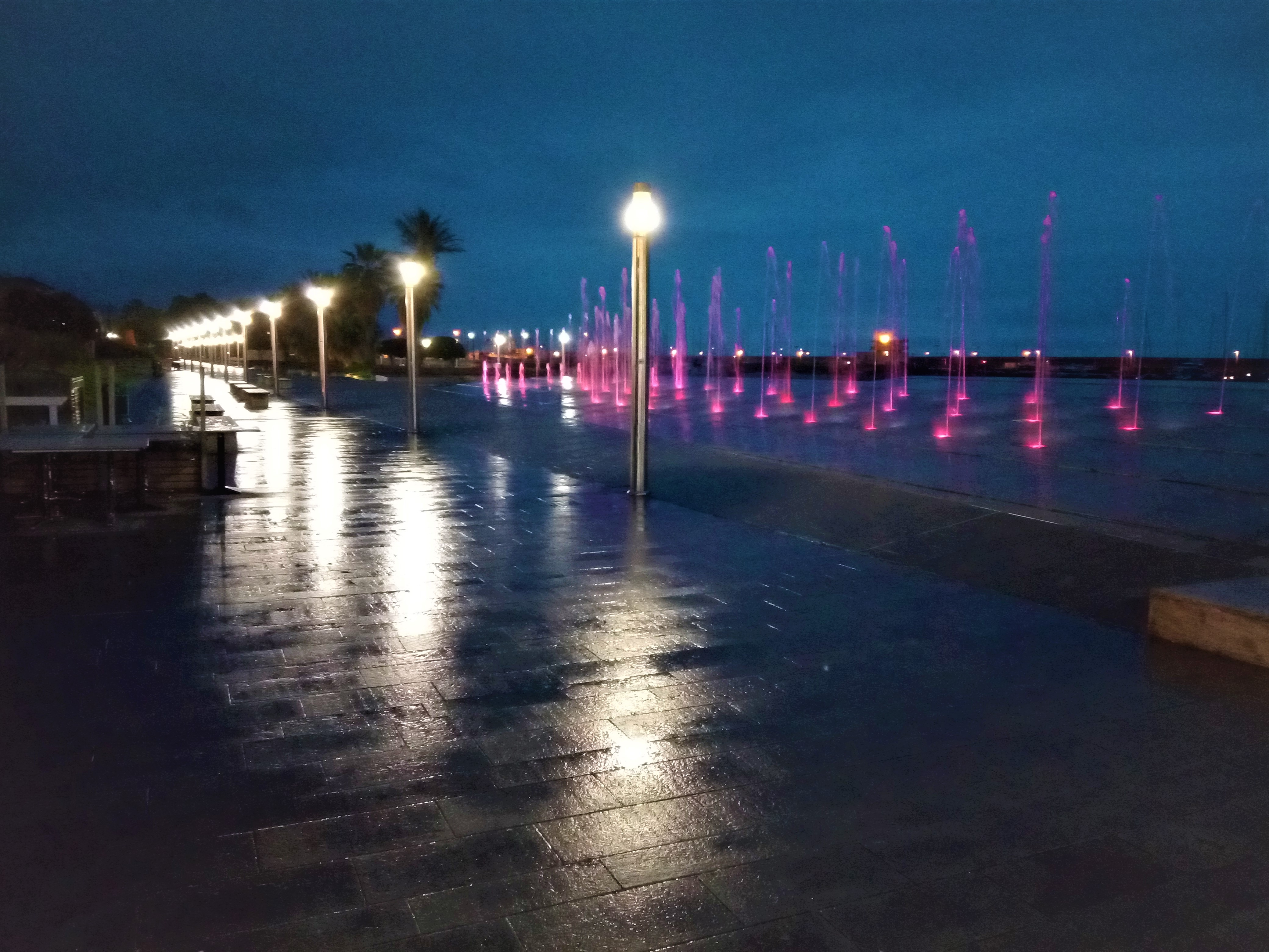 Street of Chiavari during Coronavirus lockdown